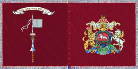 Dachenhausen Dragoons 2nd Eskadronstandarte